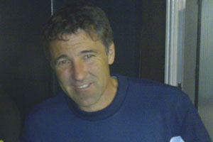 Picture of Dean Saunders.